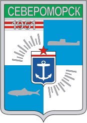 Severomorsk (Murmansk oblast), coat of arms (1966)